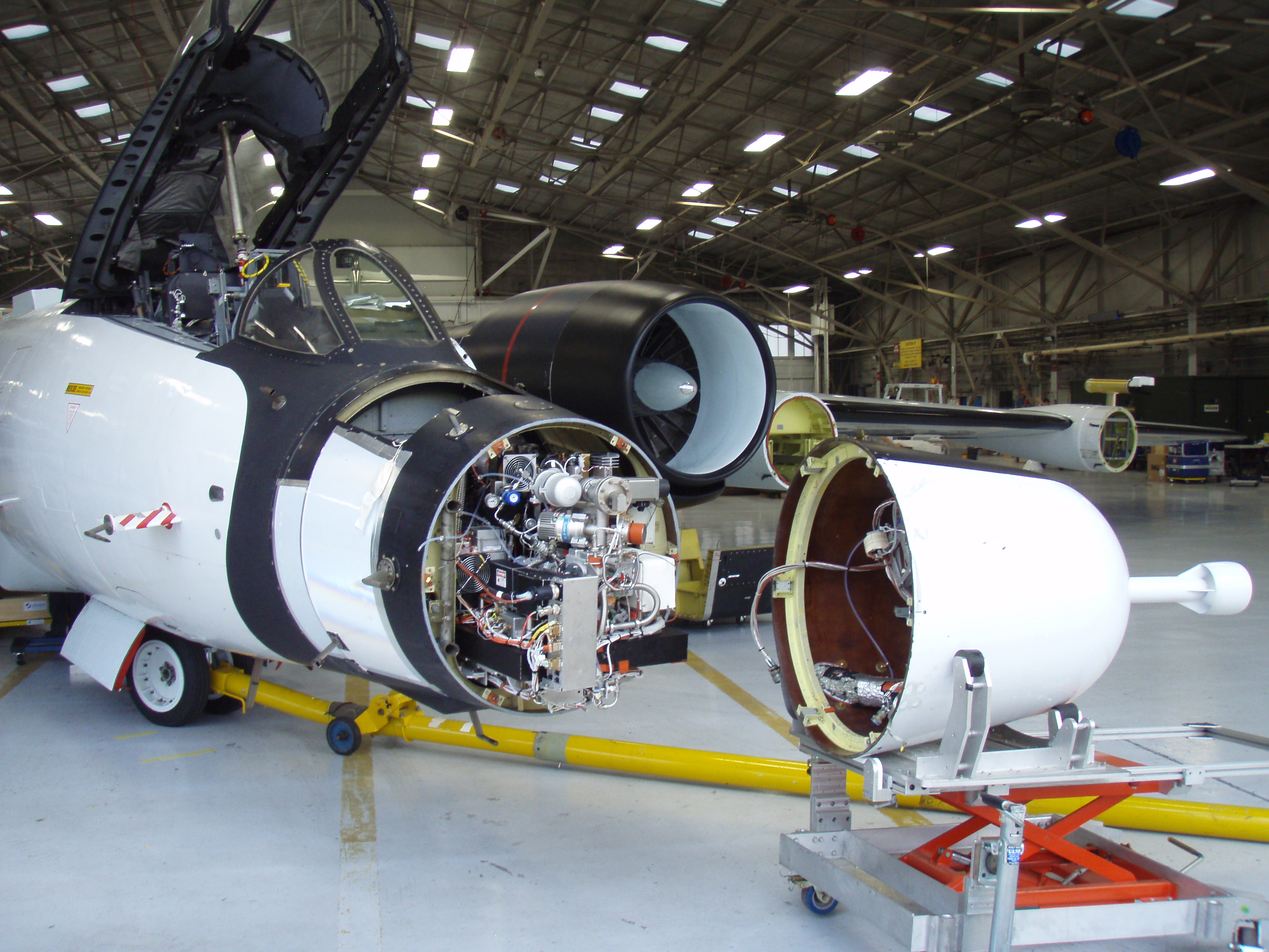 "NOAA's "PALMS" instrument aboard the NASA WB-57 high-altitude research aircraft. The Particle Analysis by Laser Mass Spectrometry instrument characterized the chemical composition of seeds in individual cirrus crystals sampled during several research flights over North America and Central America."